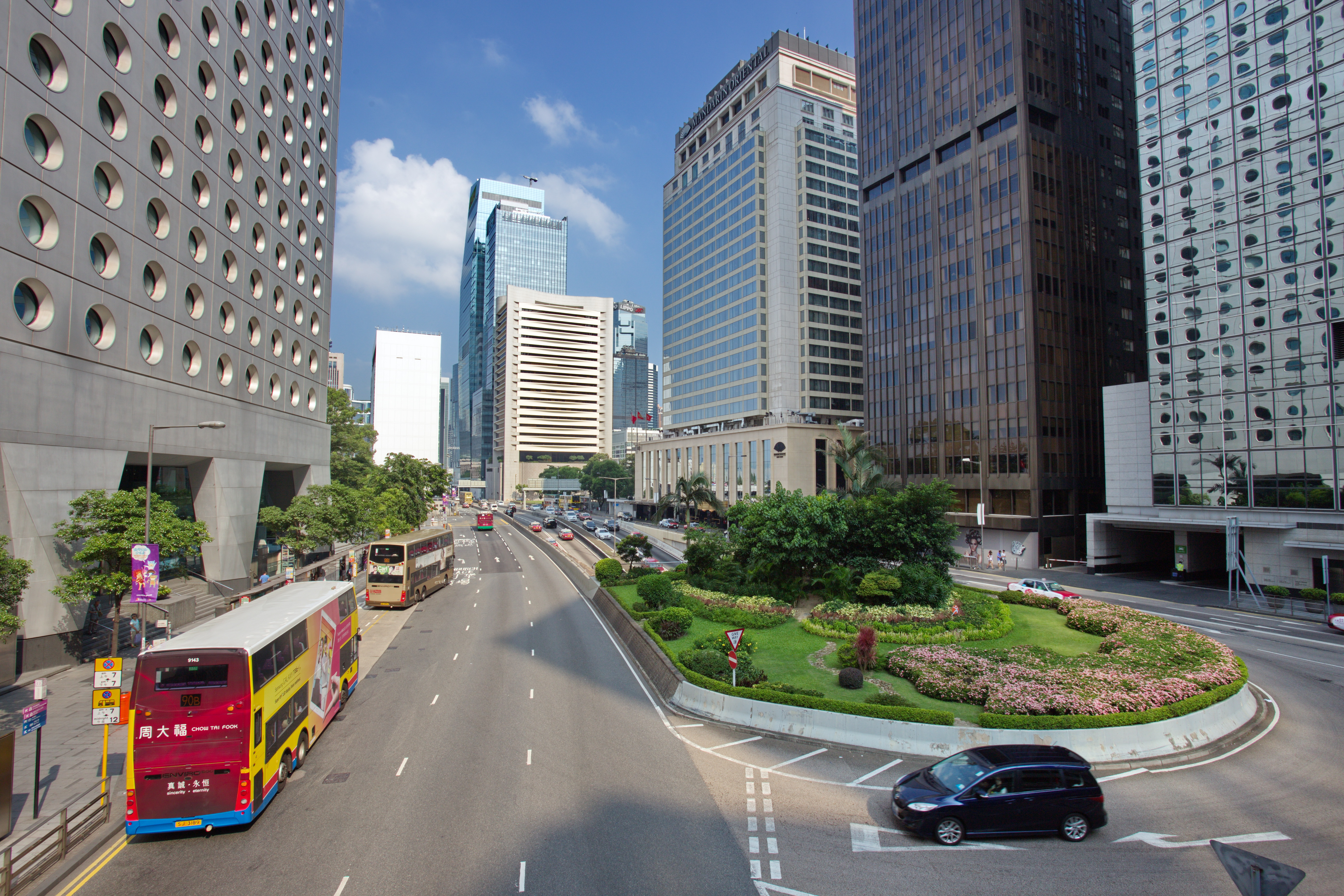 Connaught Road Central near Jardine House 中文（香港）: 中環干諾道中